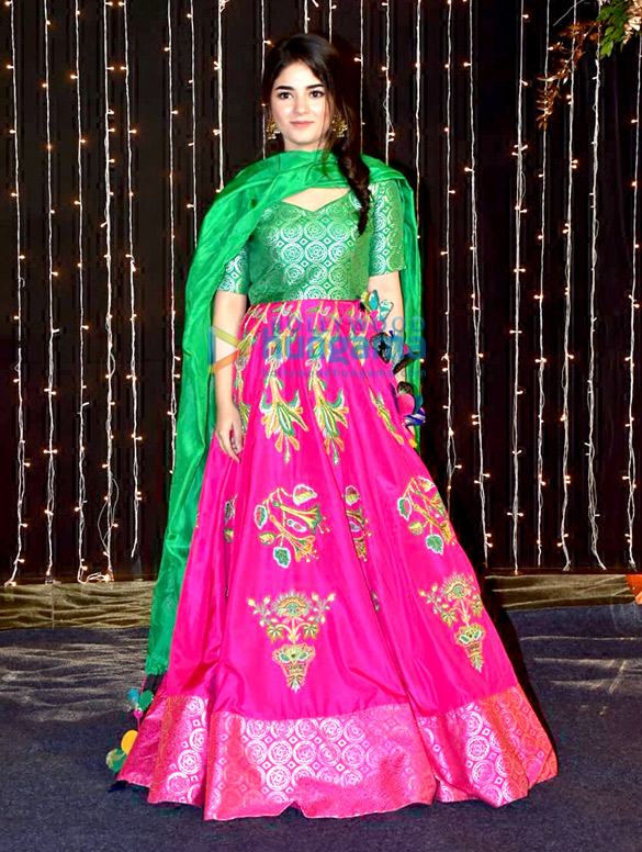 Zaira Wasim graces Nick Jonas & Priyanka Chopra’s wedding reception